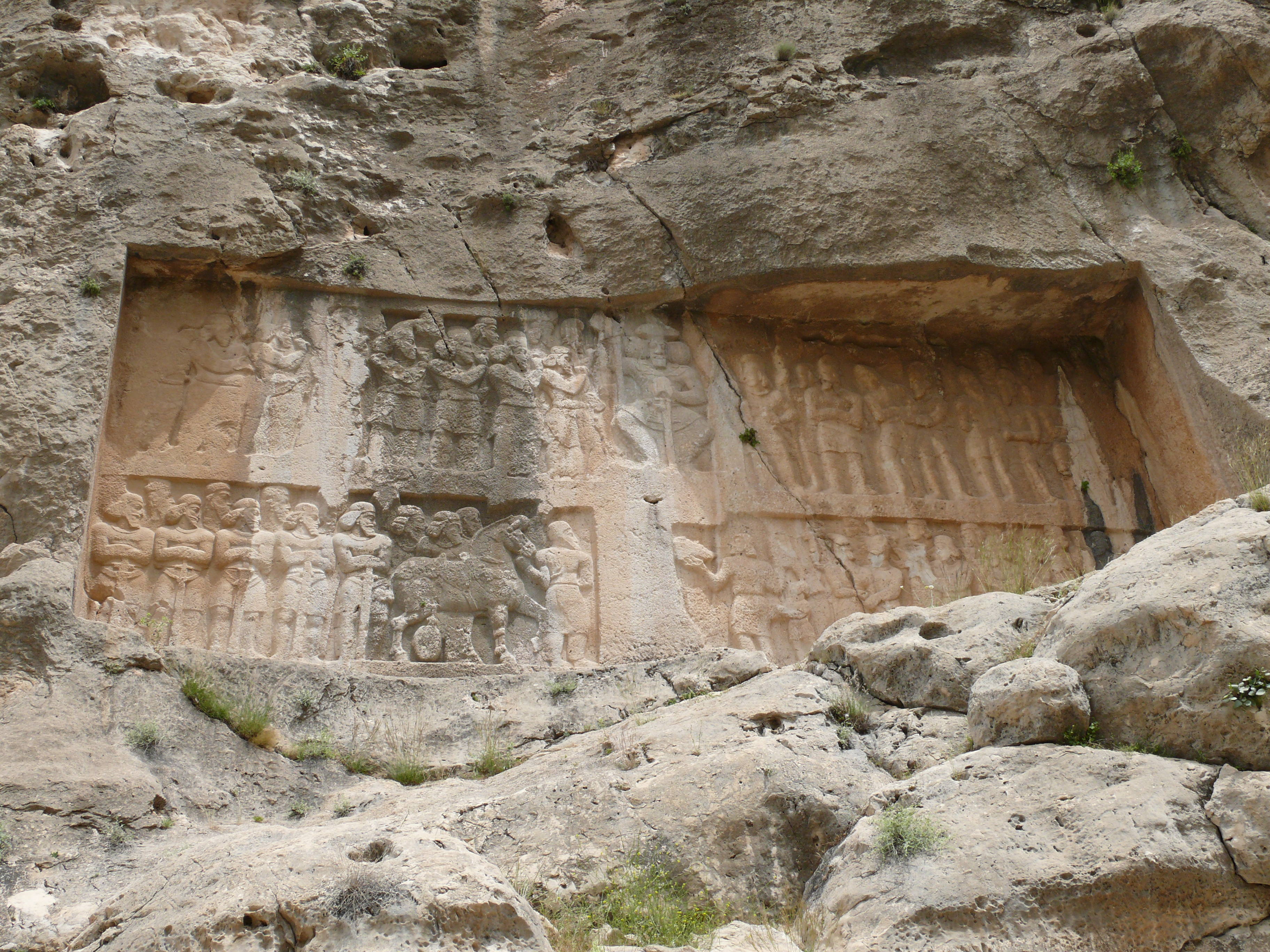 Sasanian king Chapur II's rock relief, said Bishapur VI. Relief celebrating Shapur II's victory on either indian tribes, or on Bysanian romans/christians, or his repression of an uprising. Valley of Tang-e Chowgan, ancient site of Bishapur, nearby the city of Kazerun, province of Fars, Iran.